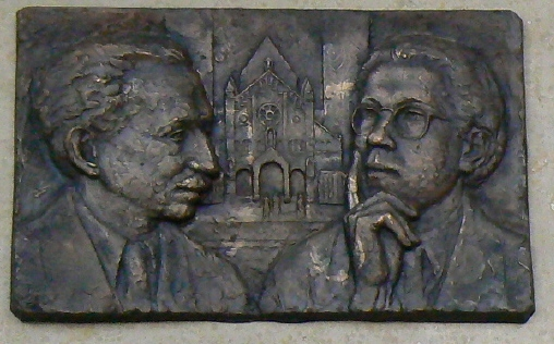 Portrait of György Buday (1907–1990) Hungarian graphic designer and Ferenc Hont (1907–1979) Hungarian writer by Mihály Fritz in Szeged Pantheon (Public art works)